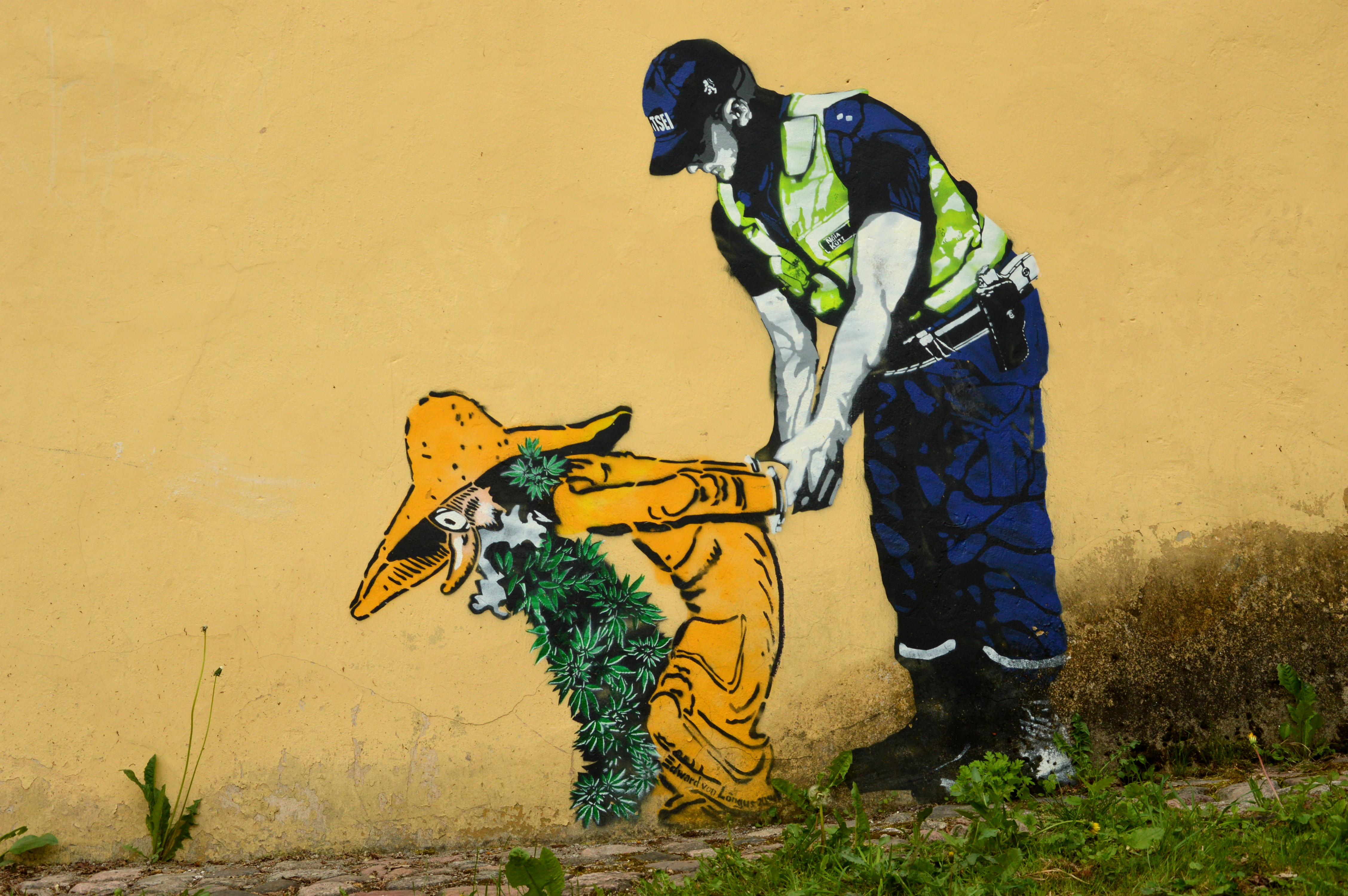 "Kannahabe ja nõiakütt" by Edward von Lõngus, drawn on the wall of an adjunct building to Lossi 36 house on Toomemäe hill in Tartu, Estonia. It is located next to Supreme Court of Estonia. ("Kannahabe" being a portmanteau of kannabis+habe, lit. transl. cannabis+beard)In the image, the title of which directly translates to "Cannabeard and witch-hunter", the policeman with the name tag "Witch Hunter" handcuffs Sammalhabe (engl. "Mossbeard"), out of whose beard grow cannabis plants. Sammalhabe is a major character from the works of an Estonian children's author Eno Raud; in his books, Mossbeard's beard instead consists of soft moss, within which grow red lingonberries (Vaccinium vitis-idaea). In 2014, graffiti artist Edward von Lõngus received the Tartu City Culture Award for this work.